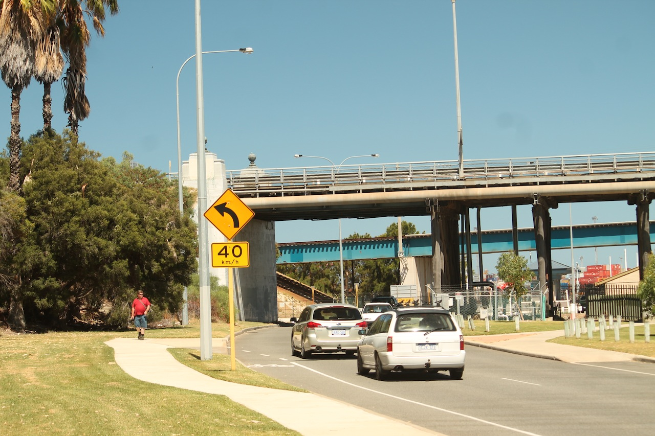 Beach steet under Fremantle Traffic and Fremant Railway Birdges